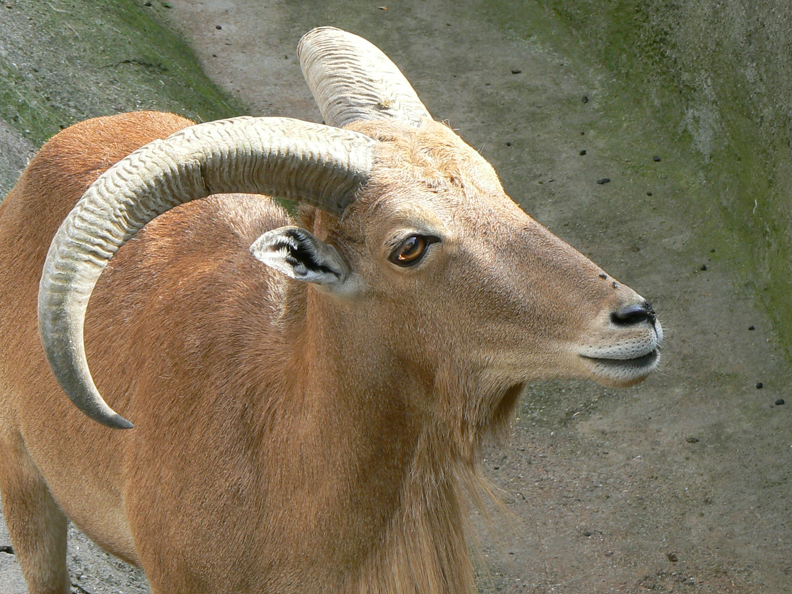 barbary sheep / Ammotragus lervia /Mähnenspringer